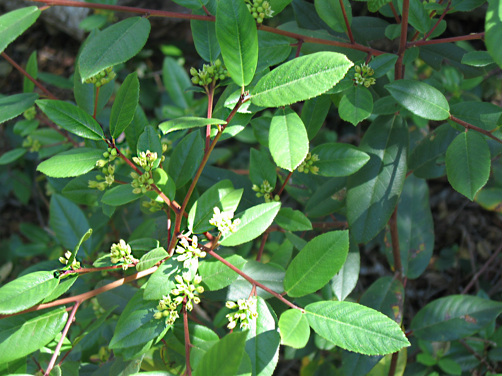 Rhamnus californica - California coffeeberry; flowering. California chaparral and woodlands habitat.